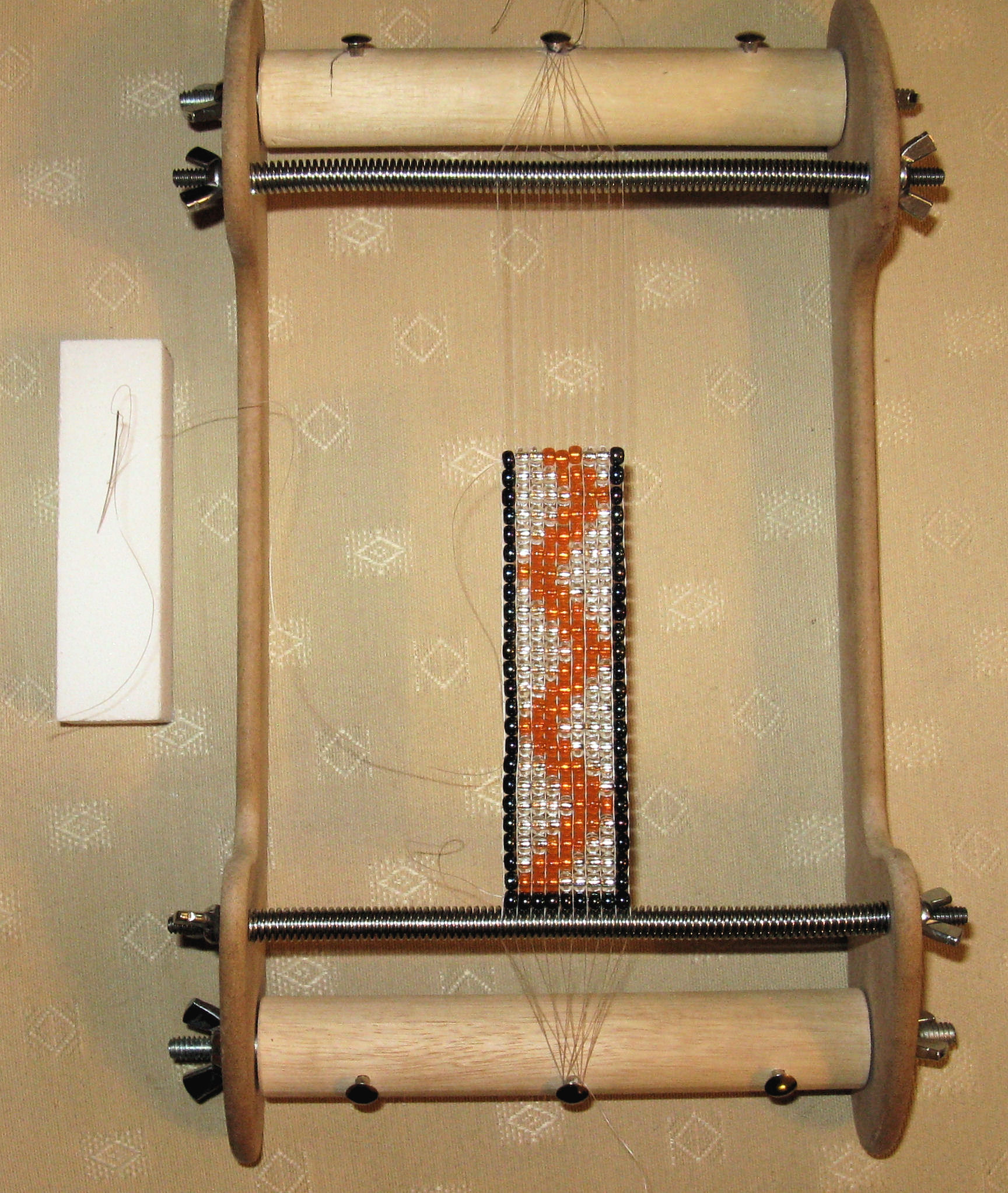 A home-made bead bracelet in progress on a bead weaving loom, using orange, transparent and black seed beads. The (very fine) needle is on the left, stuck in a block of polystyrene for safety. The bracelet is about one inch wide (2.5 cms).